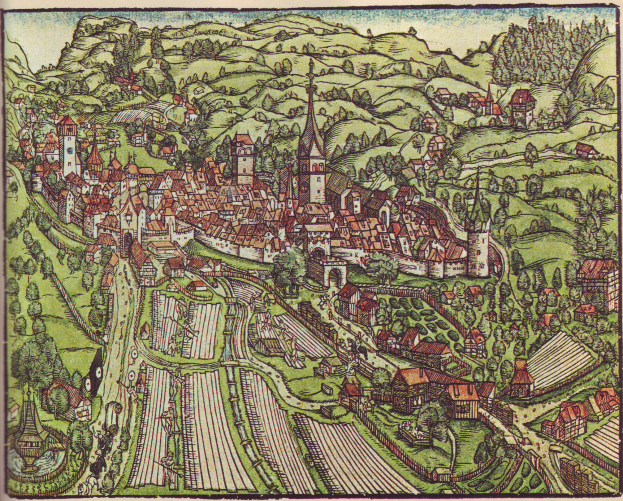 The City of Sankt Gallen, Switzerland in the chronical of Stumpf. Colored and for the chronicle simplified version from the onesheet woodcut by Heinrich Vogtherr the Elder, Zürich 1545, C. Froschauer